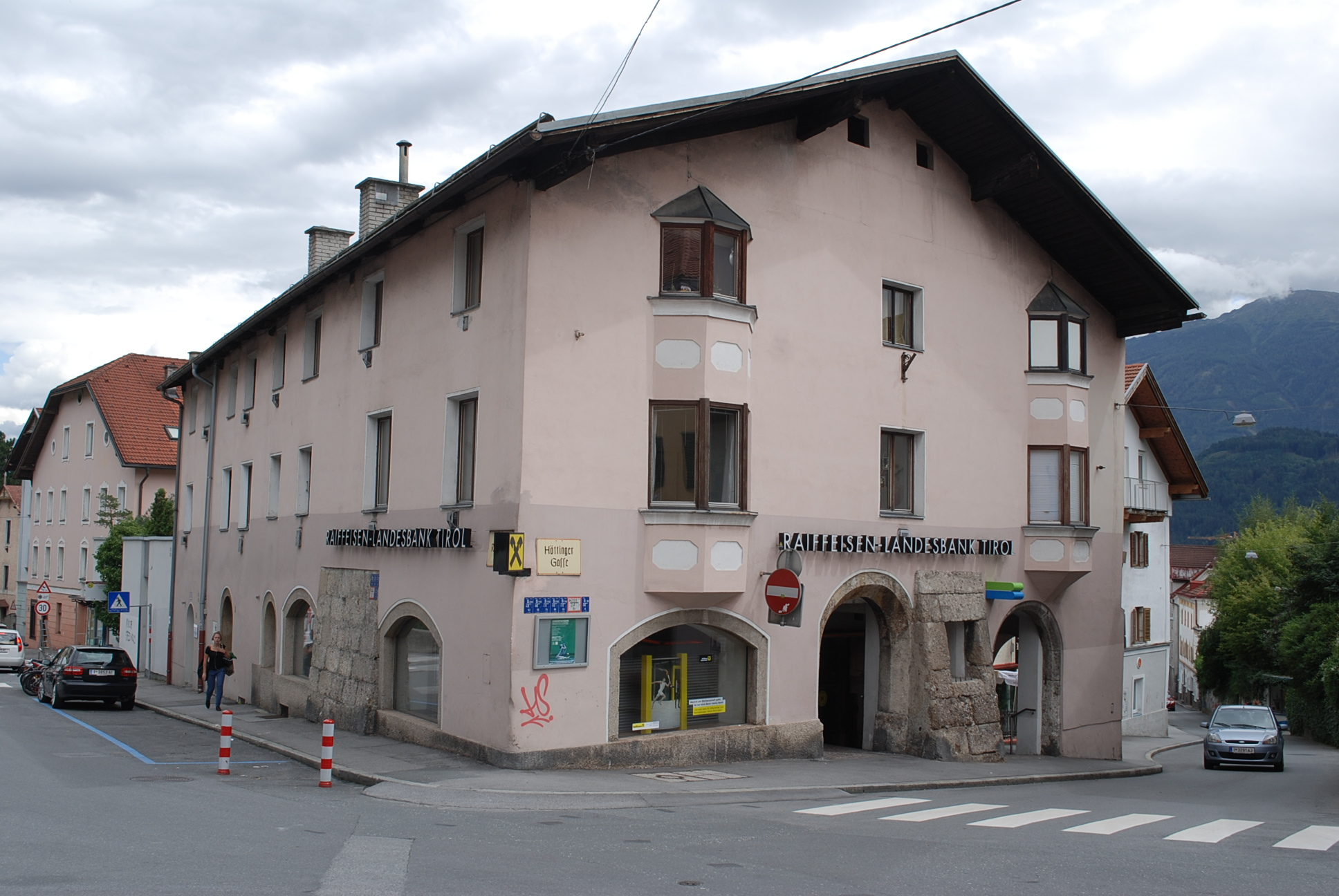 house Höttinger Gasse 32, Innsbruck, Austria